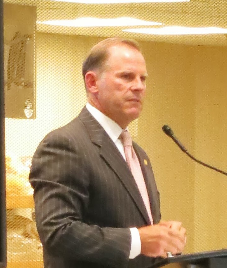 University of Missouri System President Timothy M. Wolfe speaks against HB 253 at a forum at the University of Missouri Student Center.